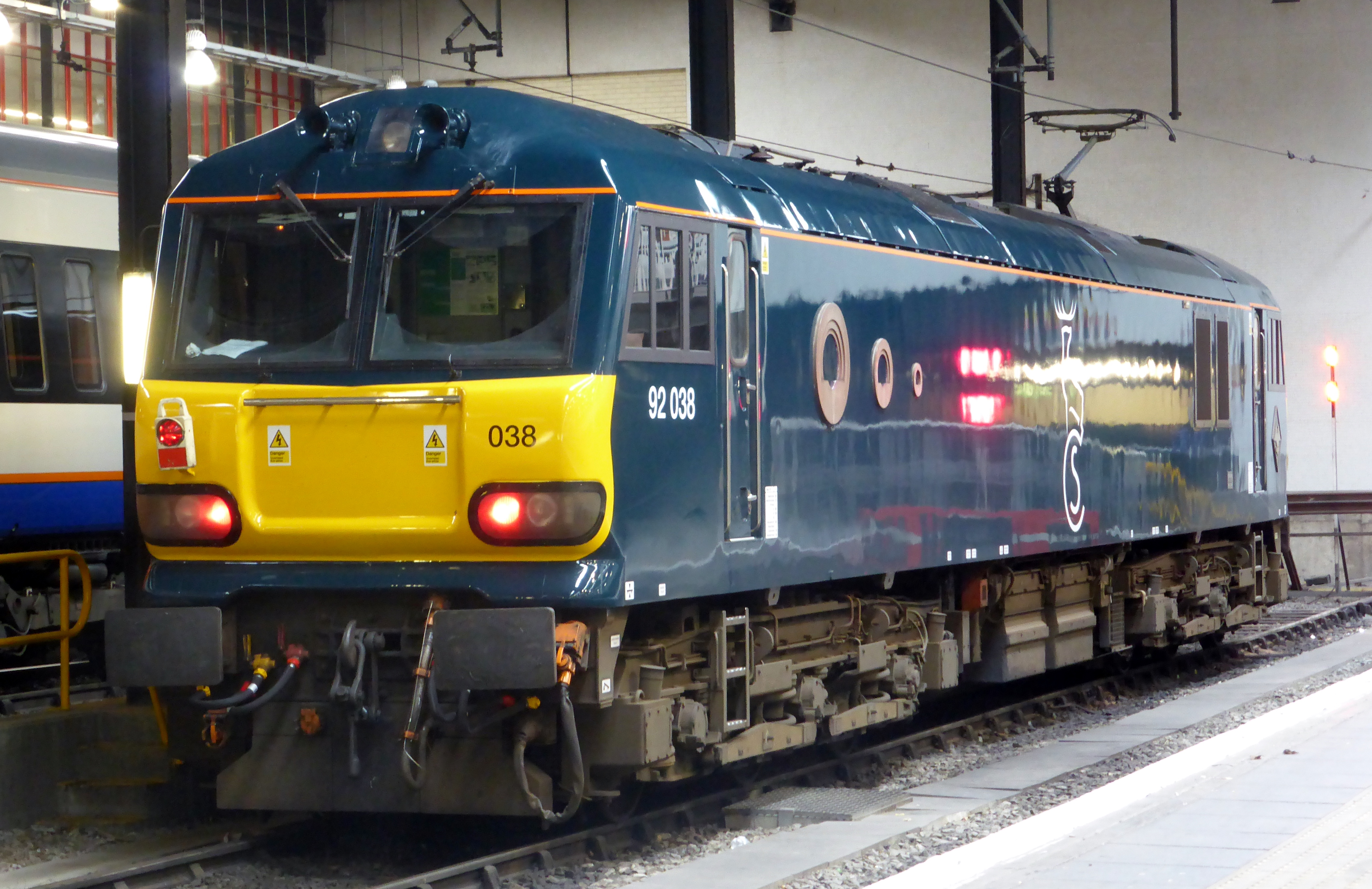 Having worked Caledonian Sleeper 1M11 from Glasgow Central to Wembley via the East Coast Main Line (ECML) GB Railfreights class 92 number 92038 was dragged into Euston on the back of the train, before moving over to be stabled up in the centre-roads.